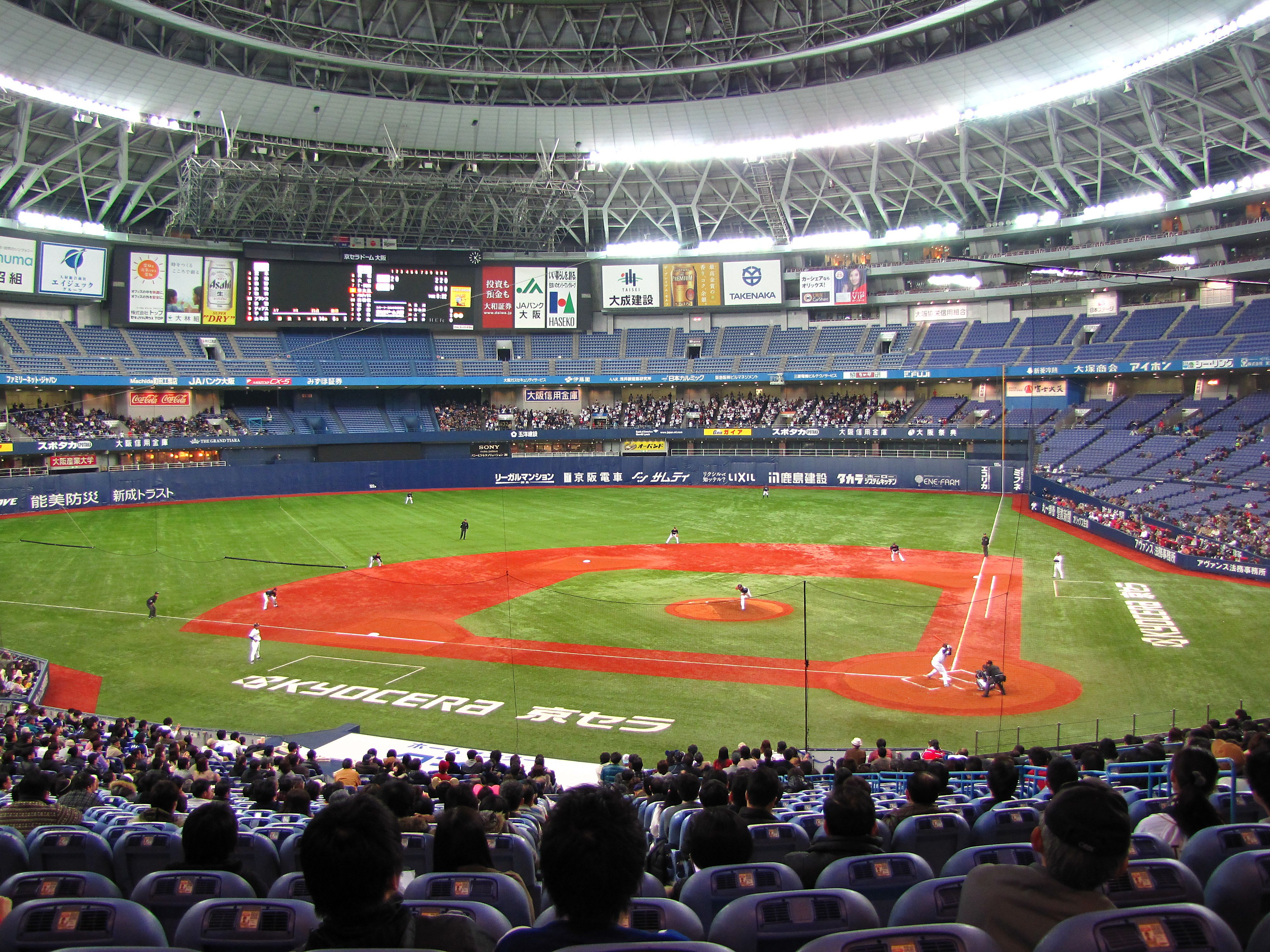 Kyocera Dome Osaka